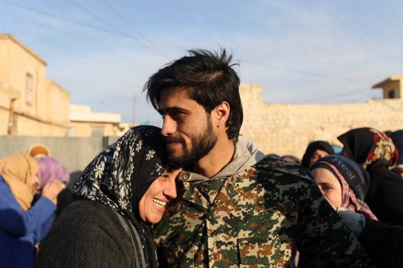 Syrian Army Breaks Several-Year-Long Siege of Nubl and Al-Zahra Towns